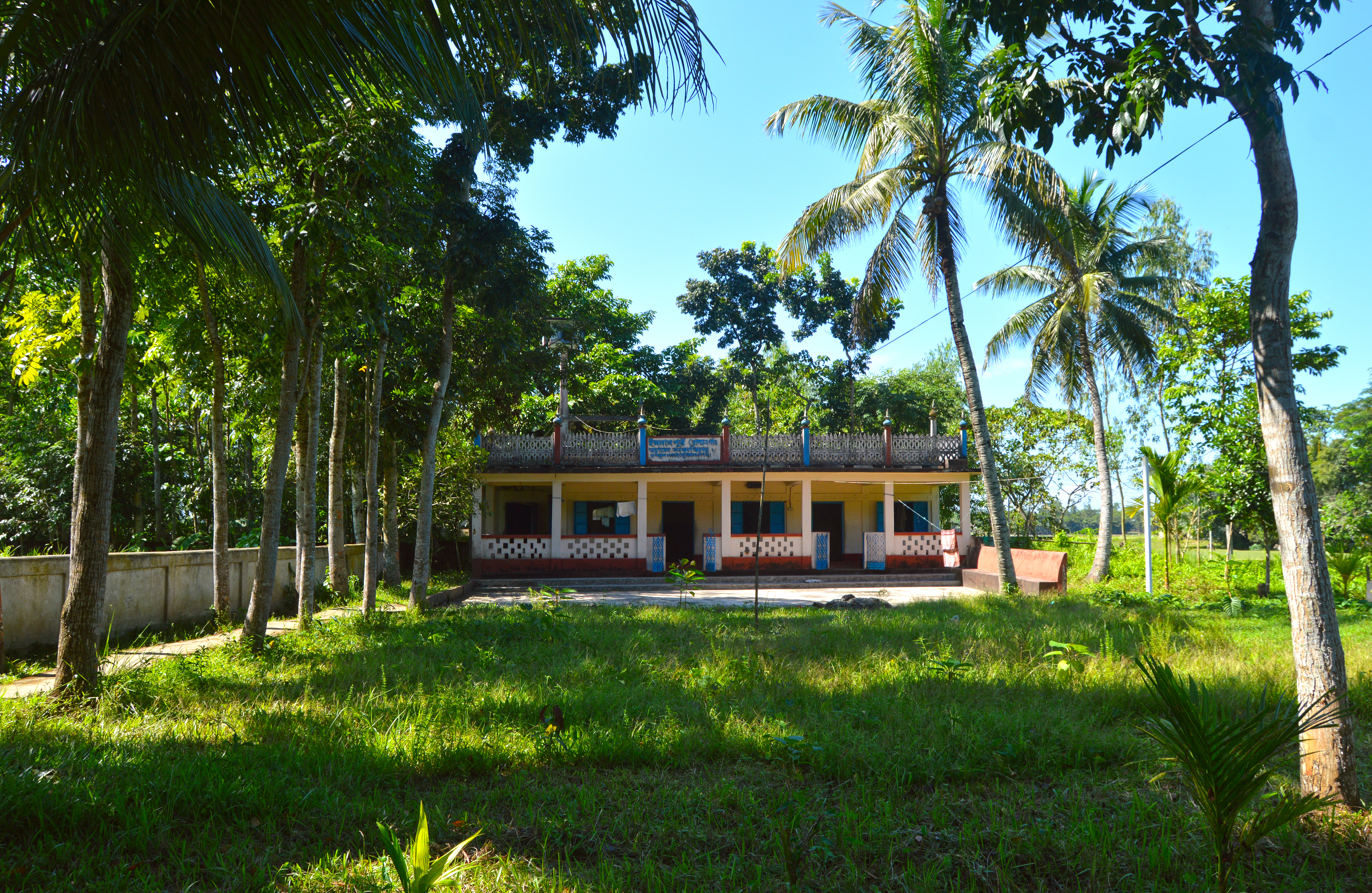 Jagannathpur Upazila, Syedpur Shahapar Union, Islampur Village Jame Masjid